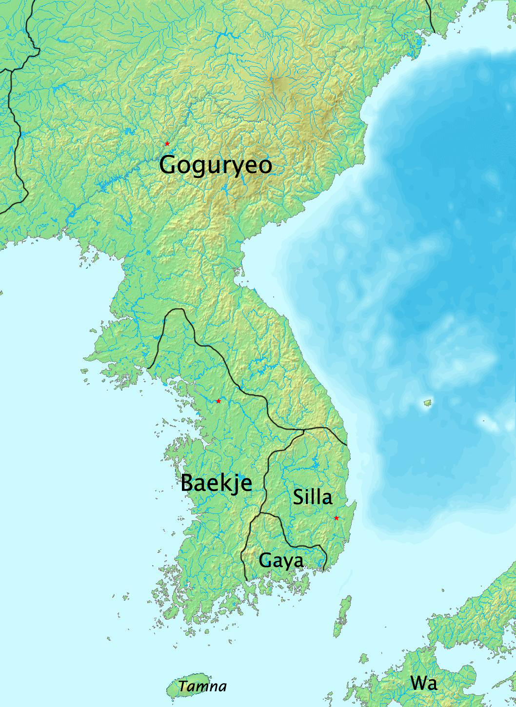 A map showing Baekje. Kiswahili: Historia ya Korea. Korea in 375, Upanuzi mkubwa wa nchi ya Baekje.